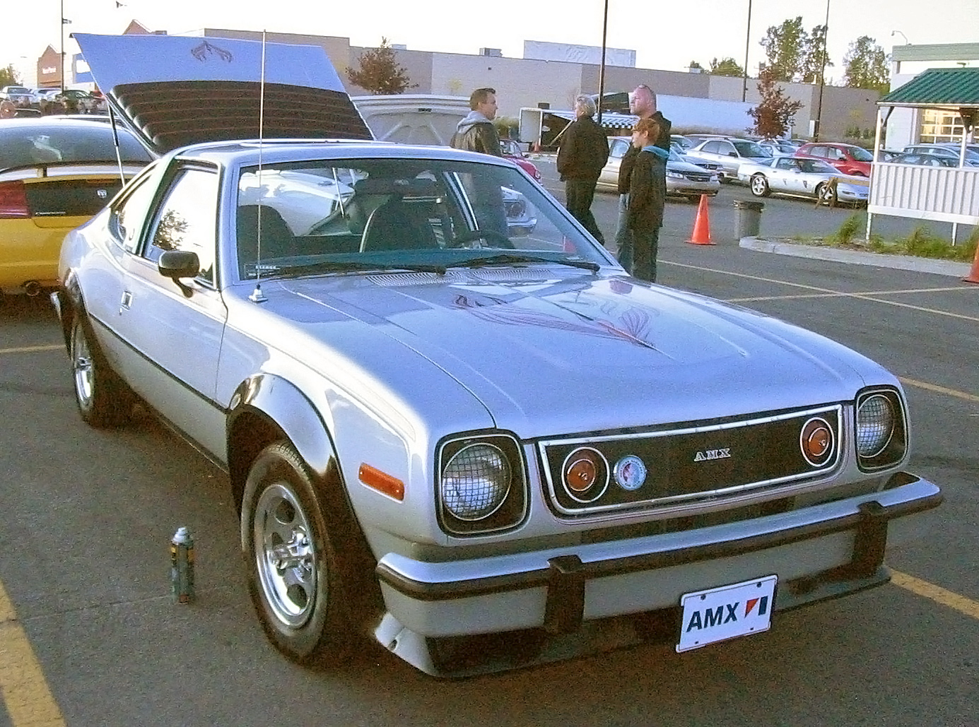 1978 AMC Concord AMX photographed in Laval, Quebec, Canada at Les chauds vendredis.